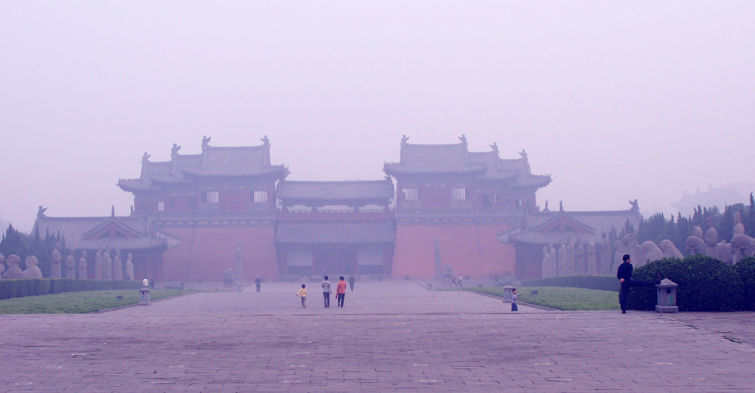 Emperors tombs of Song dynasty in Henan Province, China